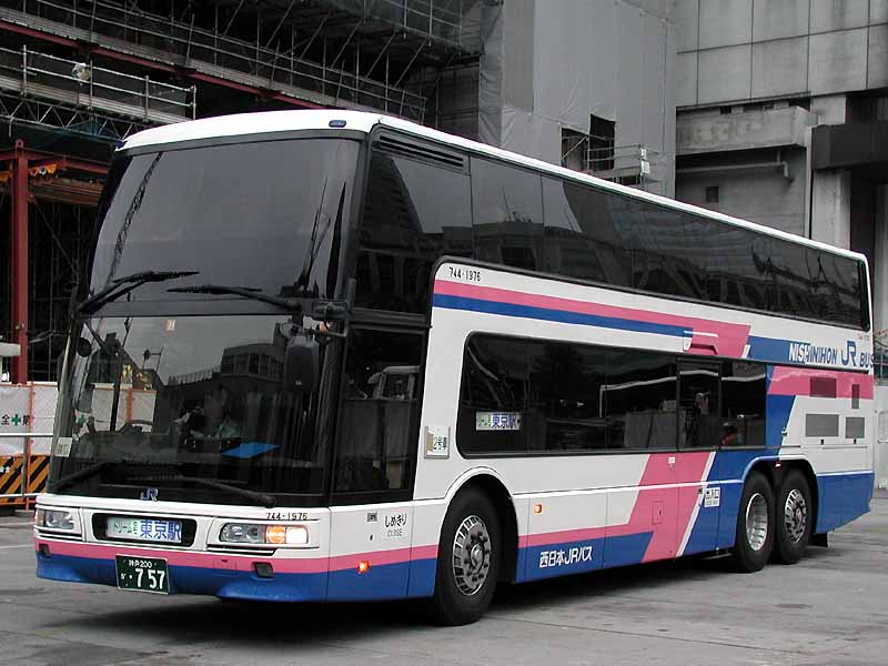 Mitsubishi Fuso Aero King (MU612TX) of Nishinihon JR Bus in overnight highway bus service "Dream-go" series, arrived at Tokyo station. Place: Tokyo Station, Japan Date: Sep.14,2002 Taken by: Comyu